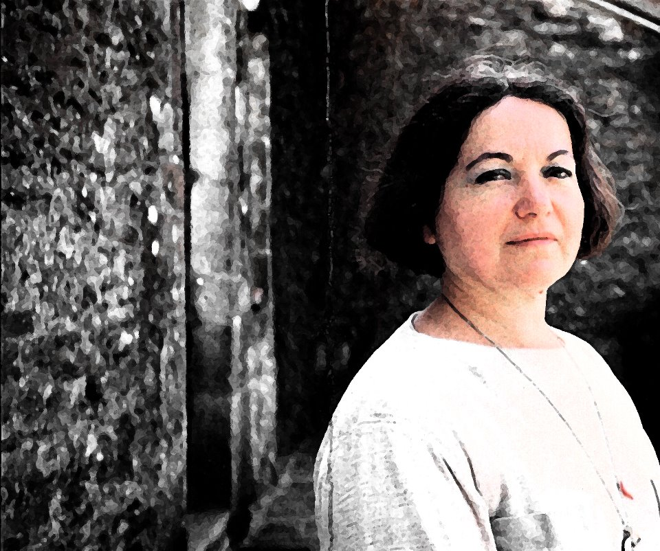 Françoise Héritier's portrait